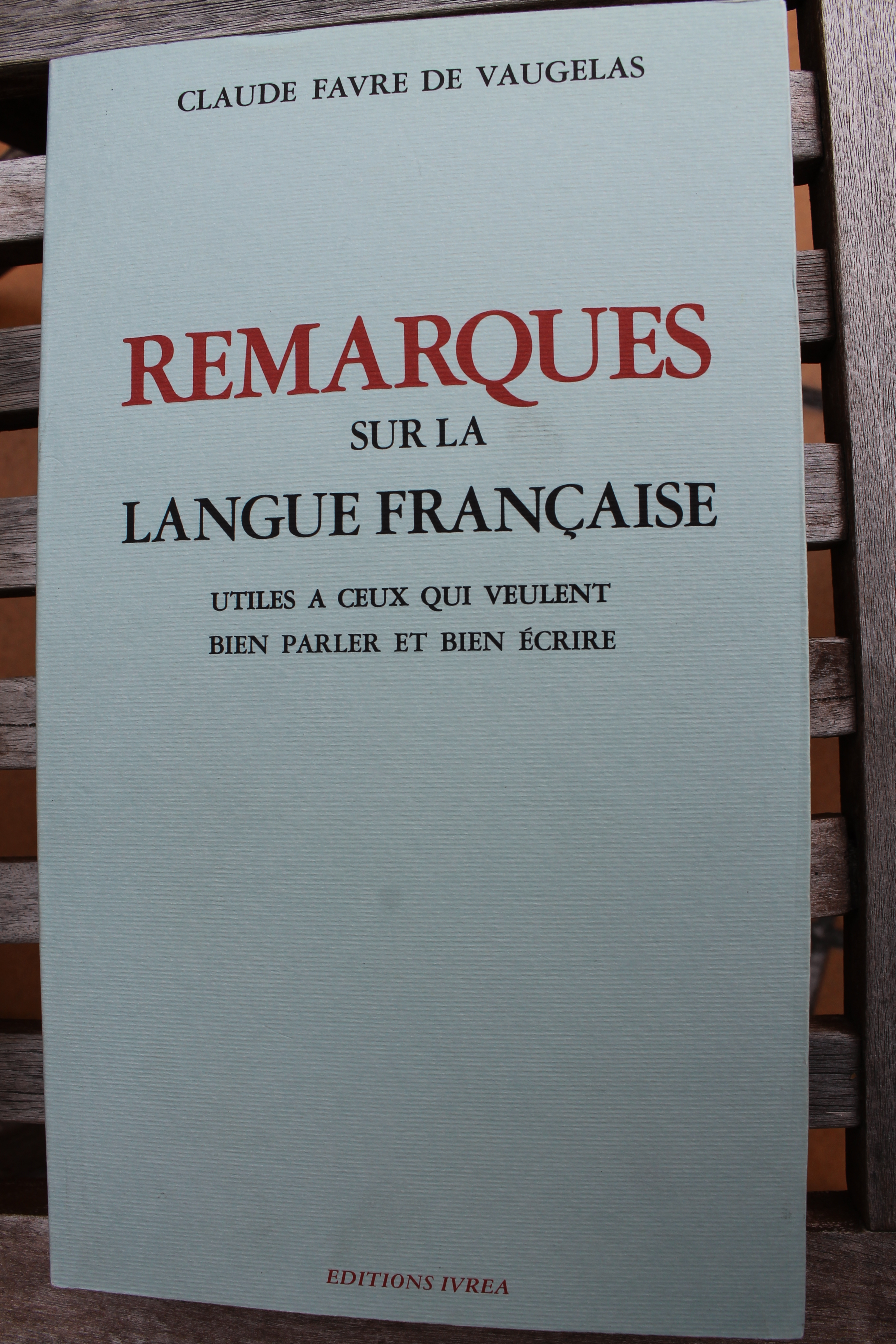 Remarques sur la langue française de Vaugelas